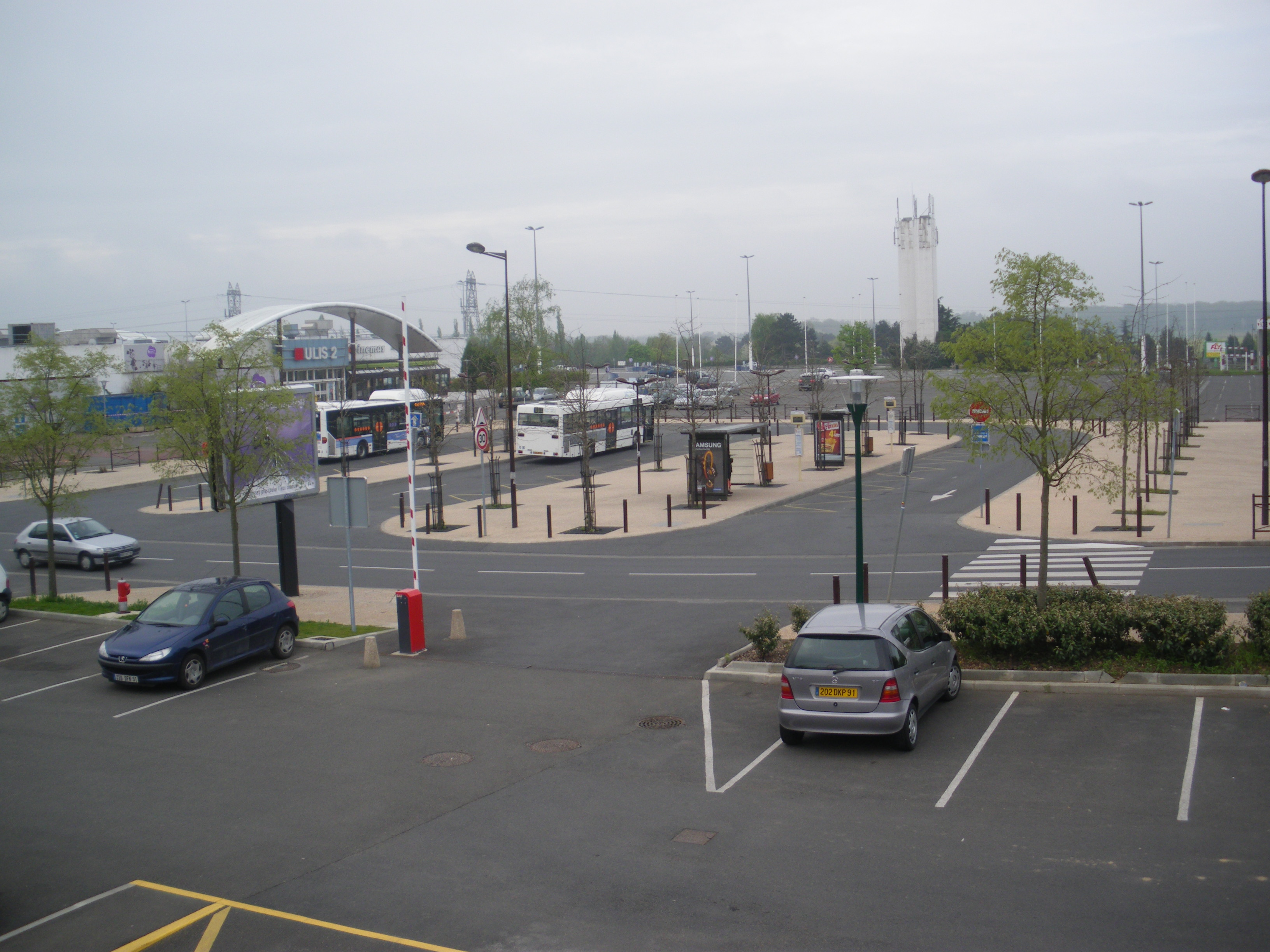 Bus Station, Les Ulis, France